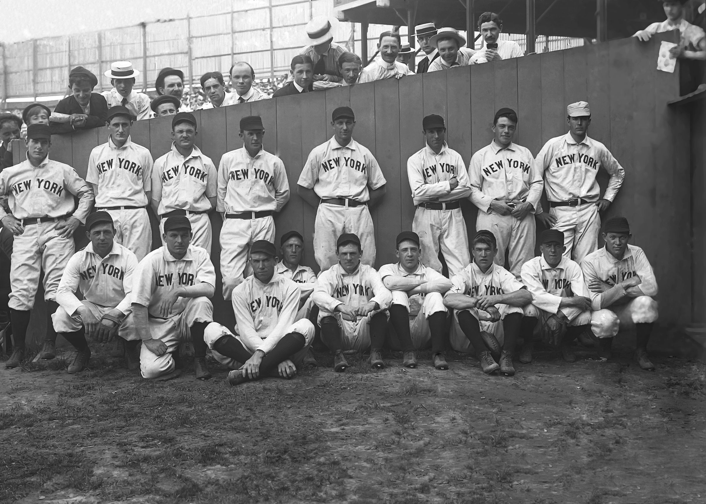 1904 New York Giants baseball teamTop row, left to right: Roger Bresnahan, Hooks Wiltse, Dummy Taylor, George Browne, Art Devlin, Jack Dunn, Moose McCormick, unidentifiedBottom row, left to right: Sam Mertes, Joe McGinnity, Dan McGann, unidentified, John McGraw, Red Ames, Frank Bowerman, Billy Gilbert, Doc Marshall